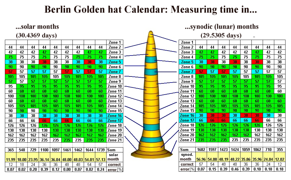 Berlin Gold hat calendrical system